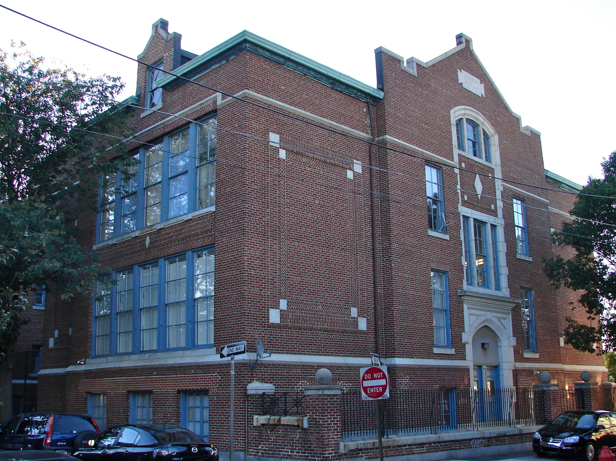 George Chandler School in Philadelphia on the NRHP since November 18, 1988. At 1050 East Montgomery St. in the Fishtown neighborhood of North Philly. Right next to I-95. Converted into condominiums or apartments "renting for $1200 a month for a 3 bedroom" according to a local resident (across the street).